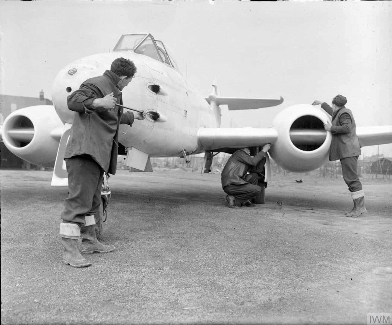 Royal Air Force- 2nd Tactical Air Force, 1943-1945. A maintenance crew at work on a Gloster Meteor F Mark III of No. 616 Squadron RAF Detachment at B58/Melsbroek, Belgium. On the left, an armourer is using a cleaning rod on one of the four 20mm cannon housed in the aircraft's nose.